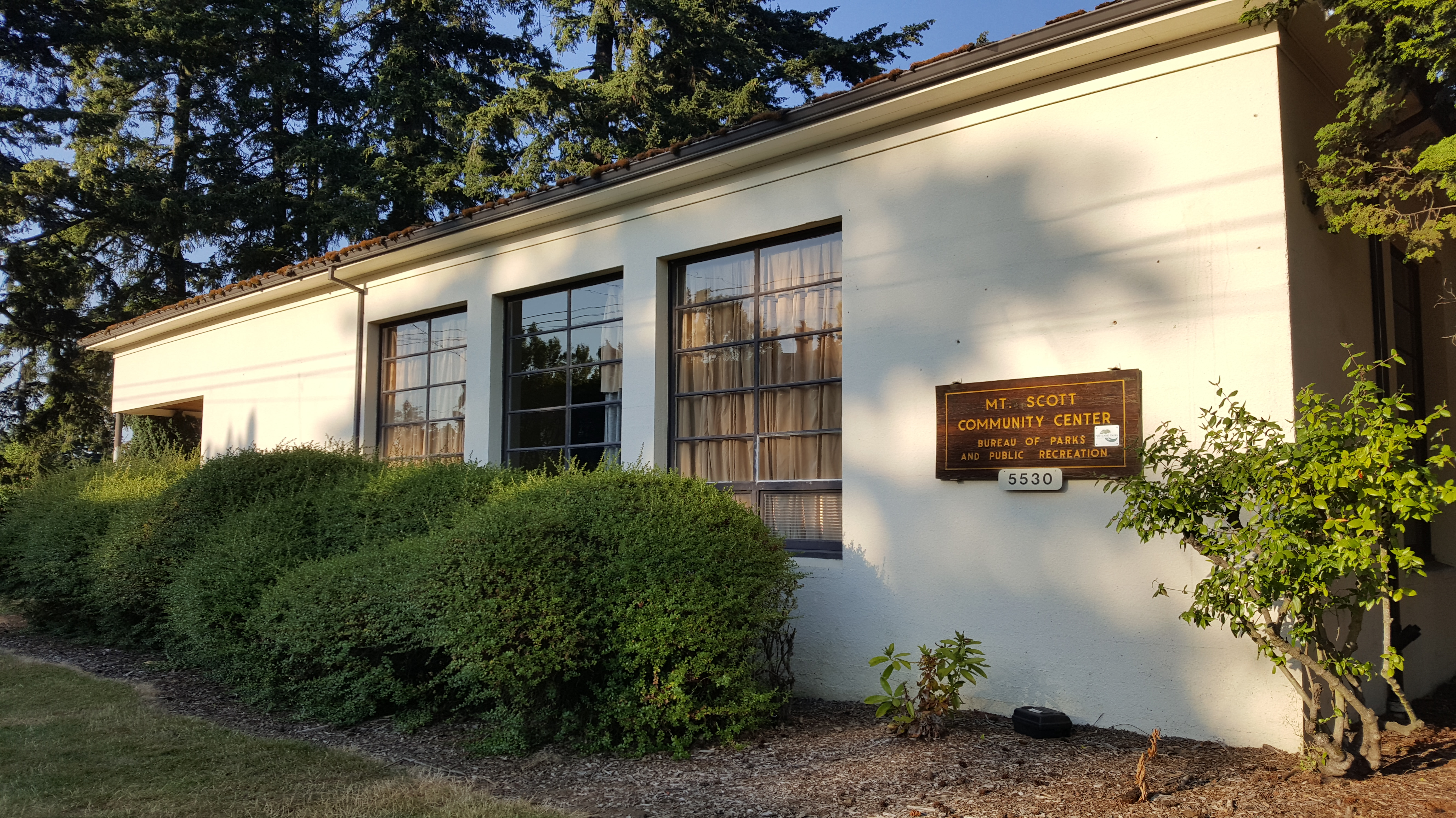 Southeast Portland, Oregon, July 2020